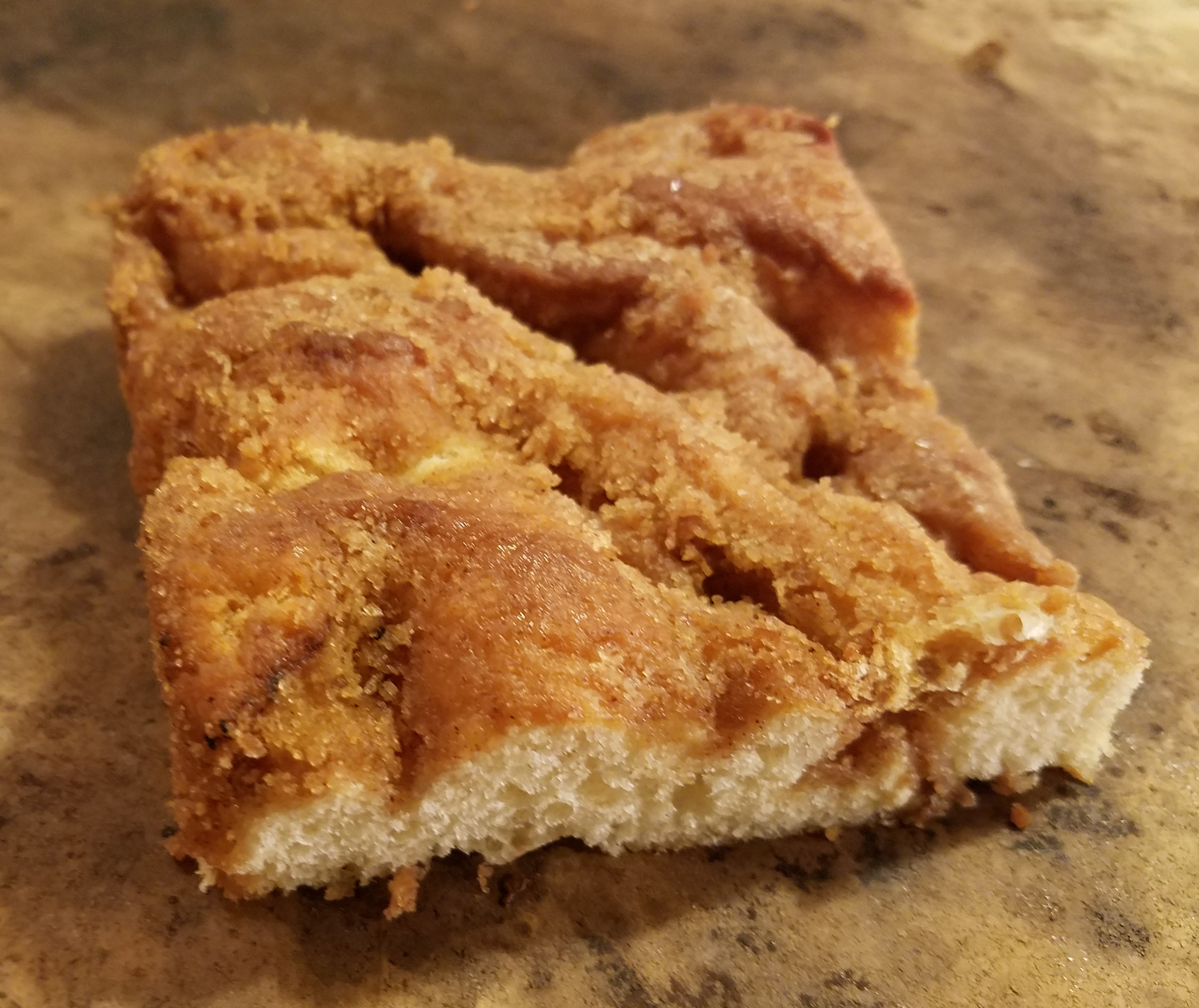 Slice of Moravian sugar cake in the oven